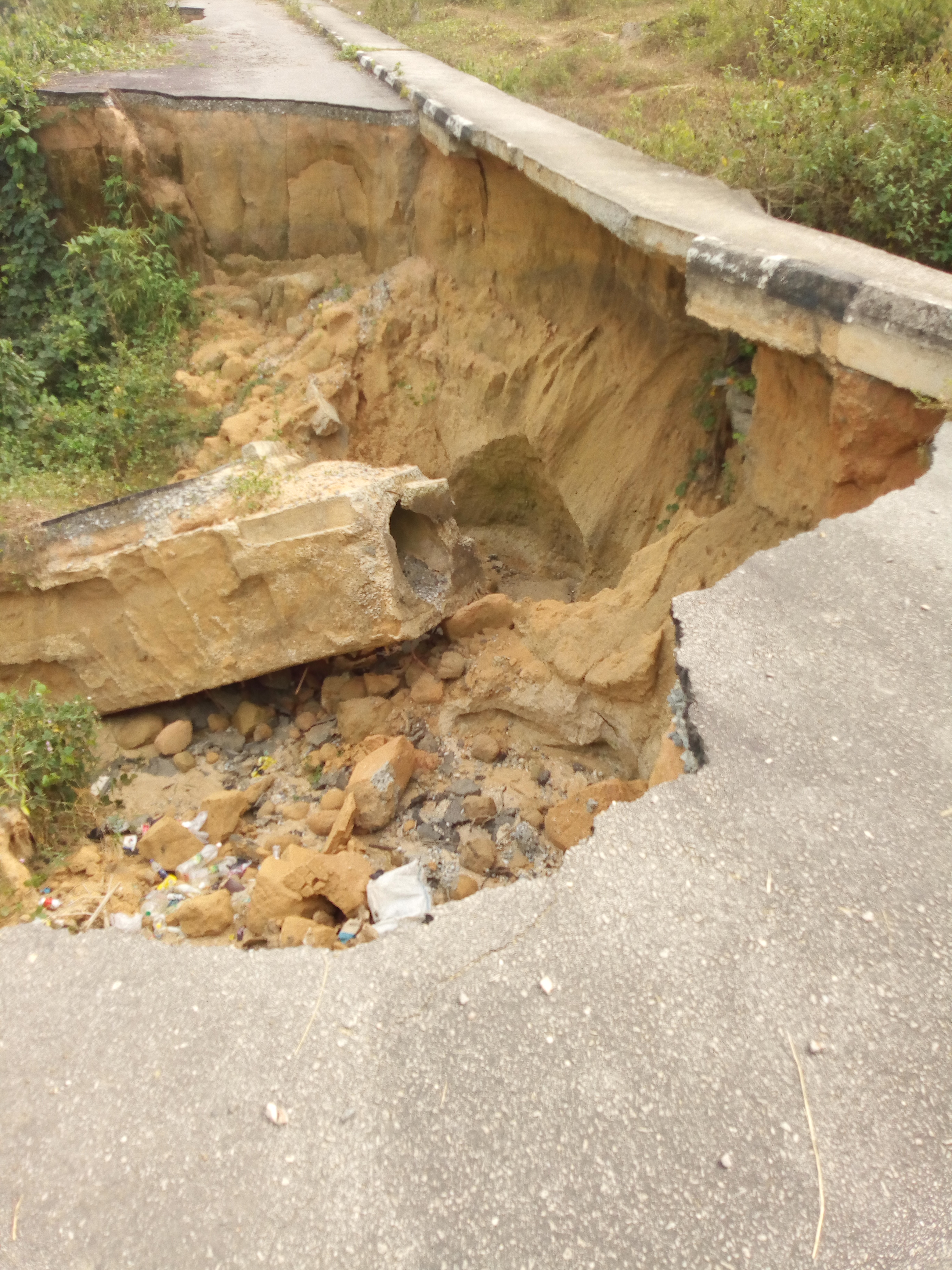 A gully in Ikot Effangha Calabar, Nigeria